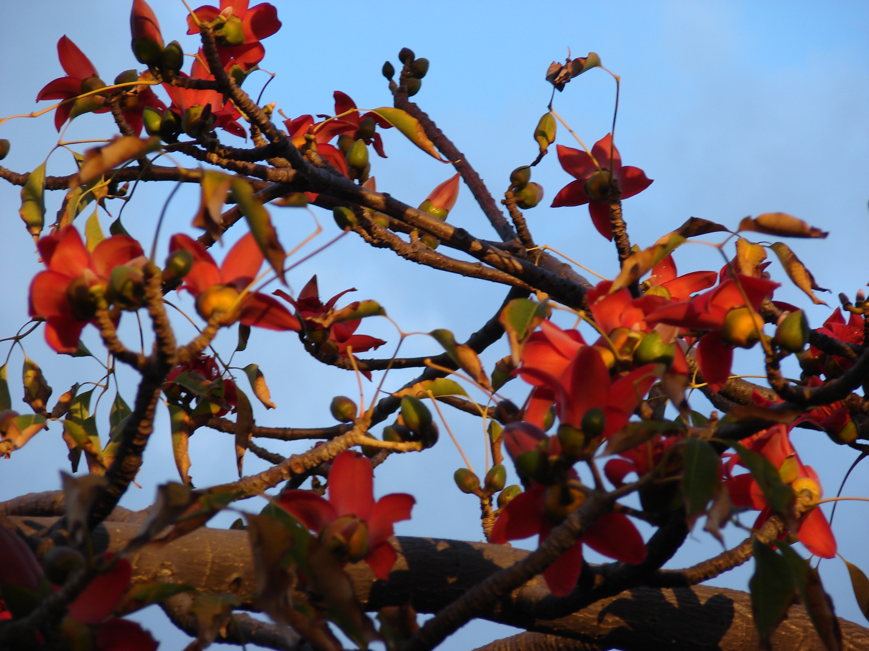 Bombax ceiba (flowers). Location: Oahu, Ala Moana Beach Park